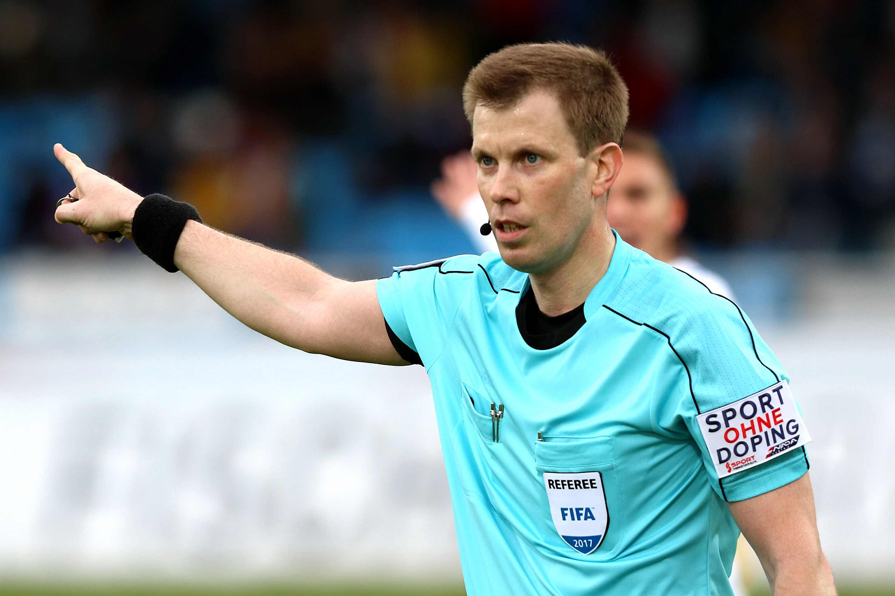 Referee Markus Hameter at 05-05-2017 in the match SC Wiener Neustadt vs. SV Horn